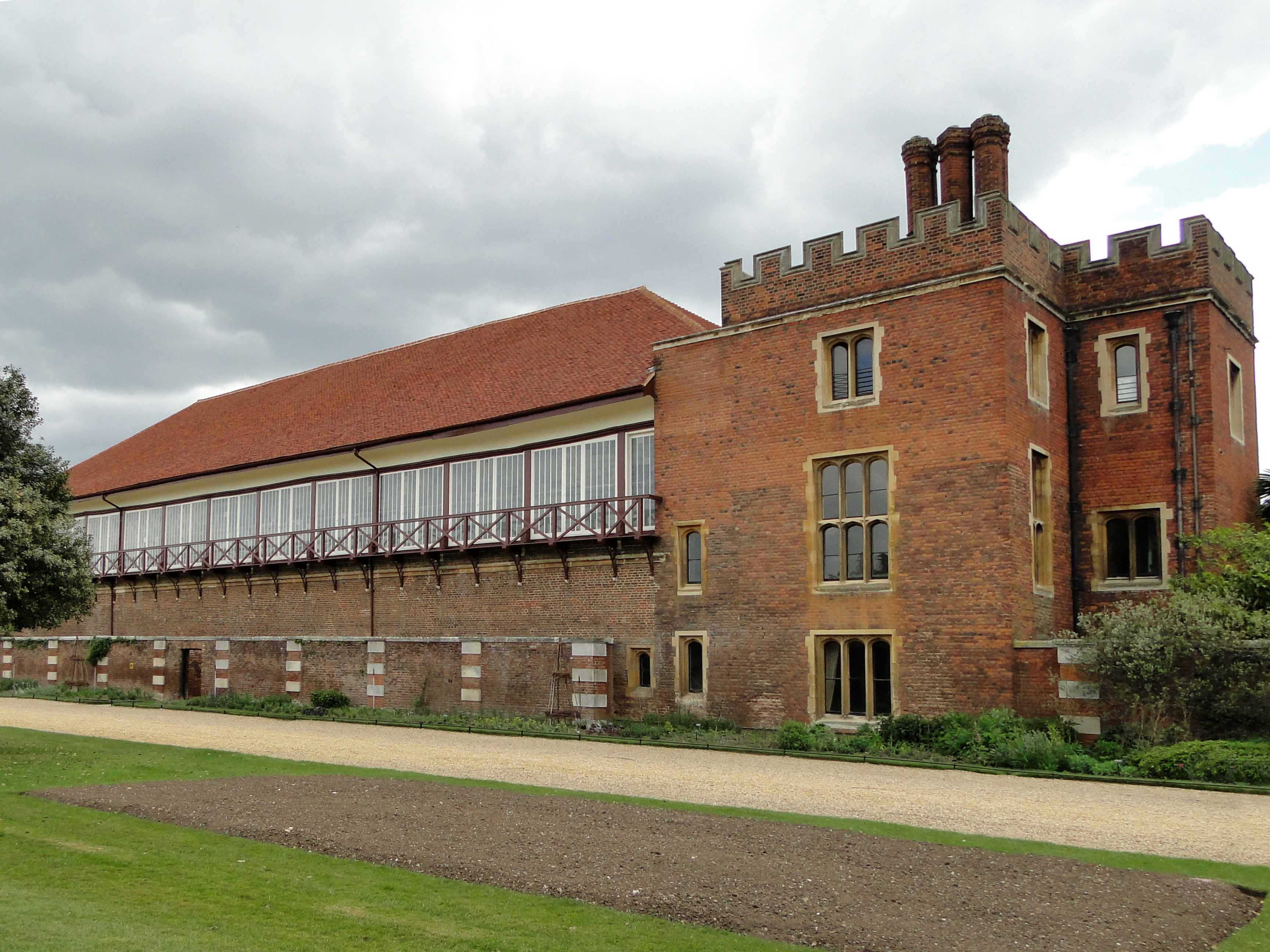 The Real Tennis Court at Hampton Court Palace